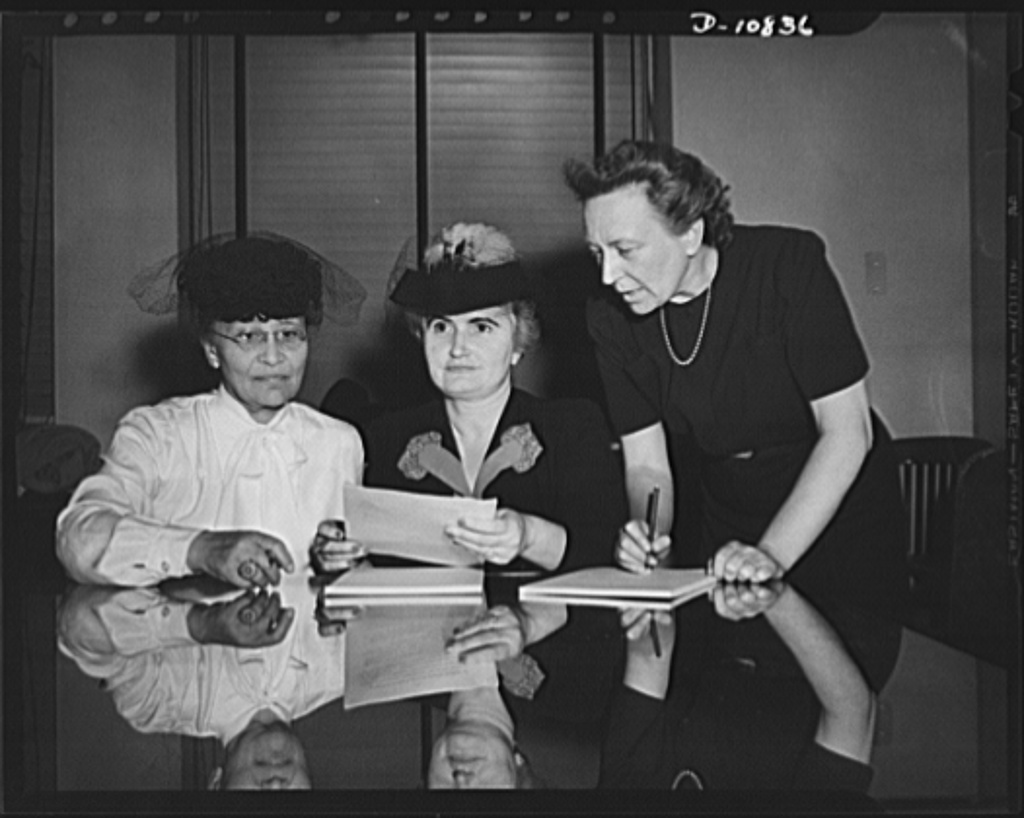 Title: Women's Policy Committee of the War Manpower Commission. At the first meeting of the Women's Policy Committee of the War Manpower Commission on October 1, 1942, three members get acquainted. They are, left to right: Maudelle Bousfield, Margaret A. Hickey, chairman; and Sara Southall. The committee was formed to aid in mobilizing women workers for the war effort Creator(s): Danor, George, photographer Related Names: United States. Office of War Information. Date Created/Published: 1942 Oct. 1. Medium: 1 negative : safety ; 4 x 5 inches or smaller. Reproduction Number: LC-USE6-D-010836 (b&w film neg.) Call Number: LC-USE6- D-010836 [P&P] LOT 1945 (corresponding photographic print) Repository: Library of Congress Prints and Photographs Division Washington, D.C. 20540 USA Notes: Actual size of negative is C (approximately 4 x 5 inches). Title and other information from print in lot and lot catalog card. Transfer; United States. Office of War Information. Overseas Picture Division. Washington Division; 1944. More information about the FSA/OWI Collection is available at Film copy on SIS roll 32, frame 2234.